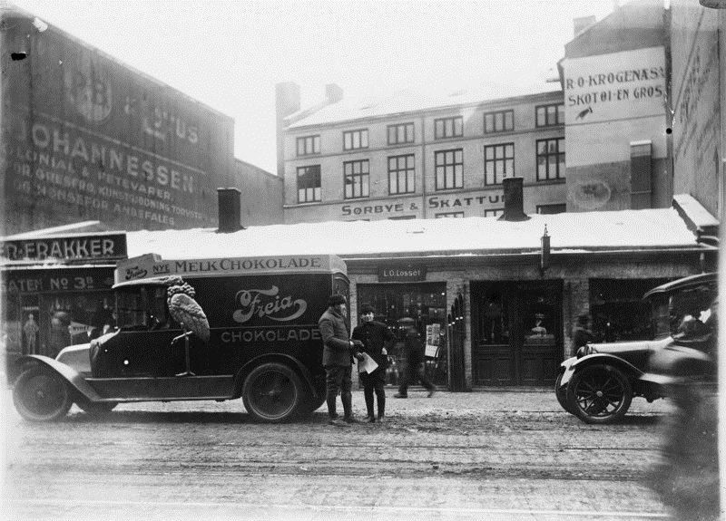 Brugata 3b, an address and building in Oslo, Norway, in 1920. To the left is a Renault 1913 used for truck advertisements by the company Freia who produced/produces chocolate. The car still exists. The car to the right is a Dodge. The buildings have advertising signs.